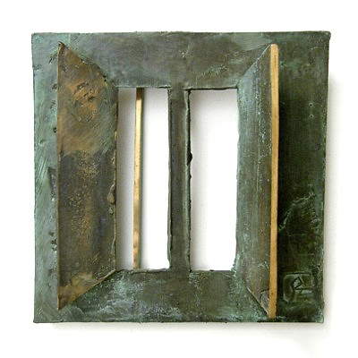 László Szunyogh: Pierced plates (Window)